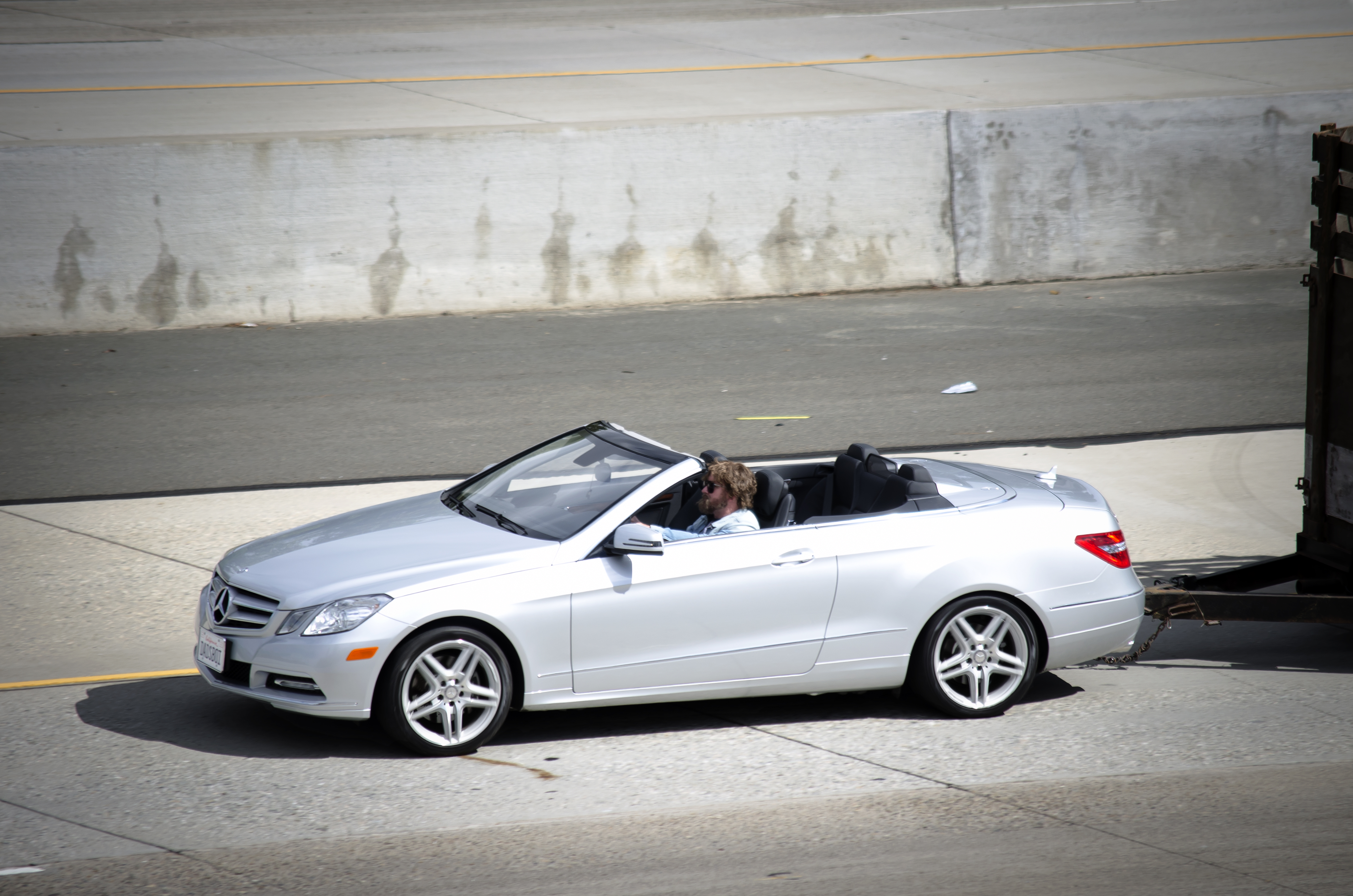 Zach Galifianakis driving the wrong way on the 73 freeway in a Mercedes-Benz E350 Convertible. This was during the filming of The Hangover 3.